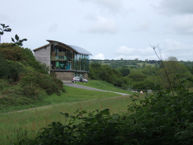 The Welsh Wildlife Centre, Cilgerran This is the headquarters of the Wildlife Trust for south and west Wales. The building won an award for architectural design in 1993 when it was first constructed - largely of wood and glass - and has panoramic views over the Afon Teifi, Cardigan town, woods and marshes. The centre plays a substantial educational role, as well as being a visitor attraction with shop and restaurant. It's a splendid place to learn about the history and wildlife of the area as well as conservation issues in general.